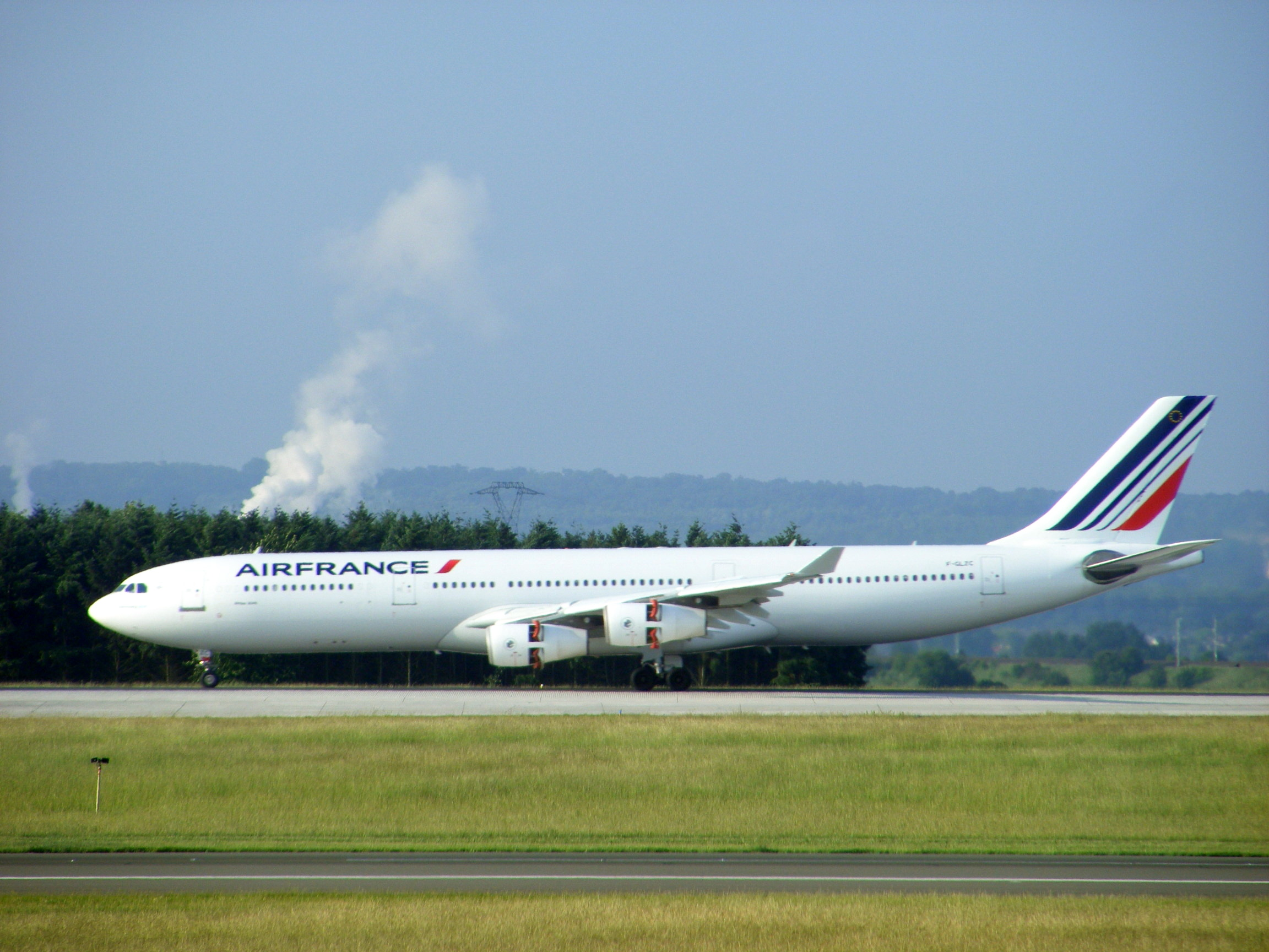 Air France Airbus A340-311 F-GLZC at Paris-Charles de Gaulle Airport (LFPG)